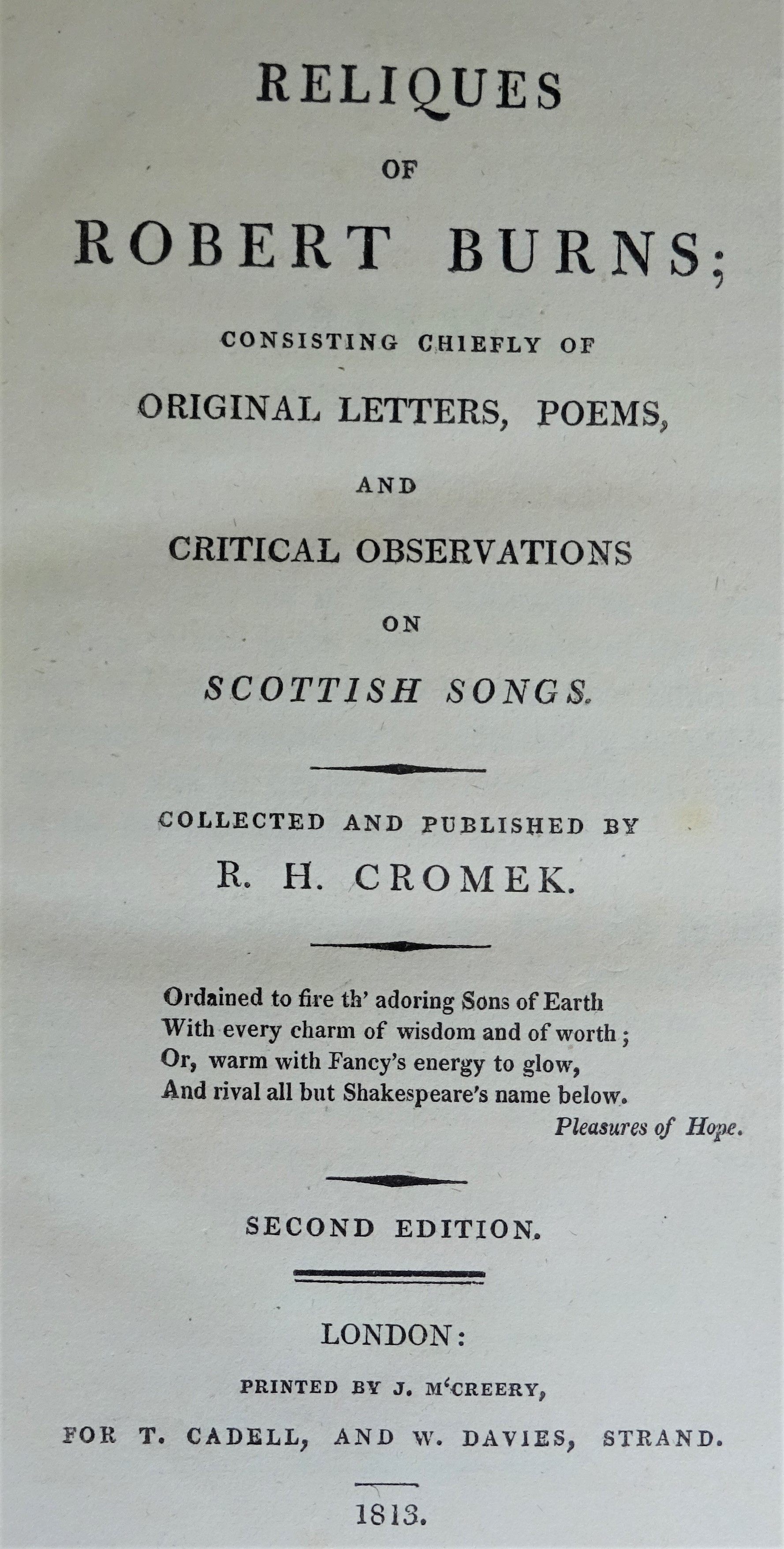 Title page of Cromek's Reliques and Robert Burns's Interleaved Scots Musical Museum